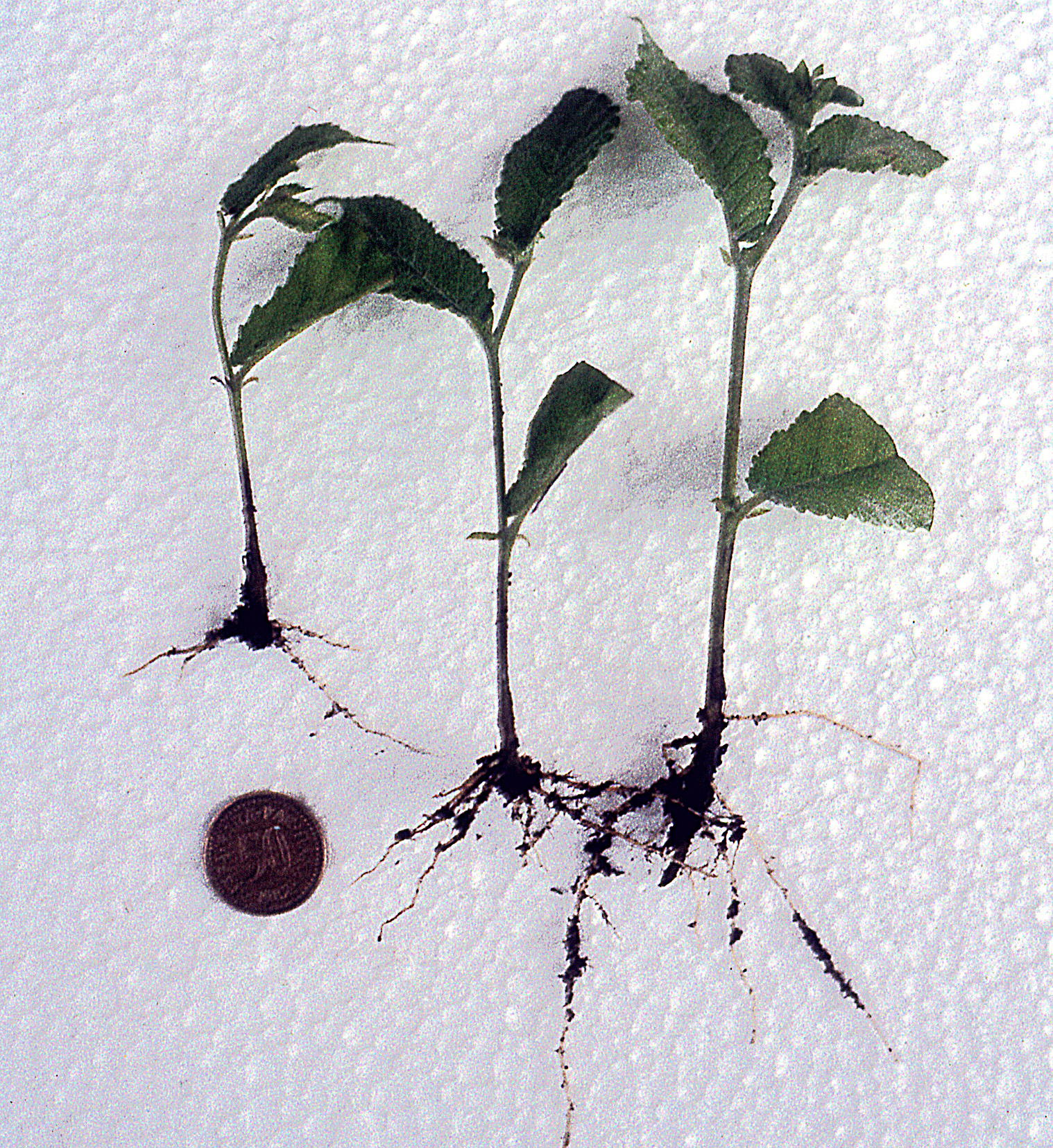 Ulmus x hollandica 'Belgica' rooted green cuttings